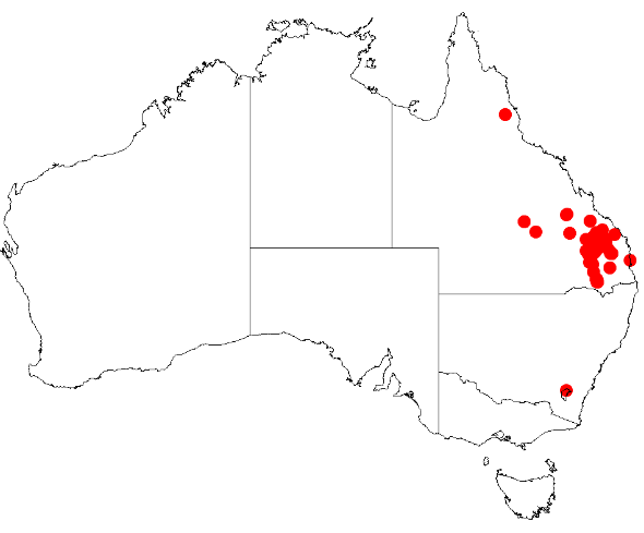 Acacia semirigida Occurrence data from Australasia Virtual Herbarium downloaded from on 8 December 2018